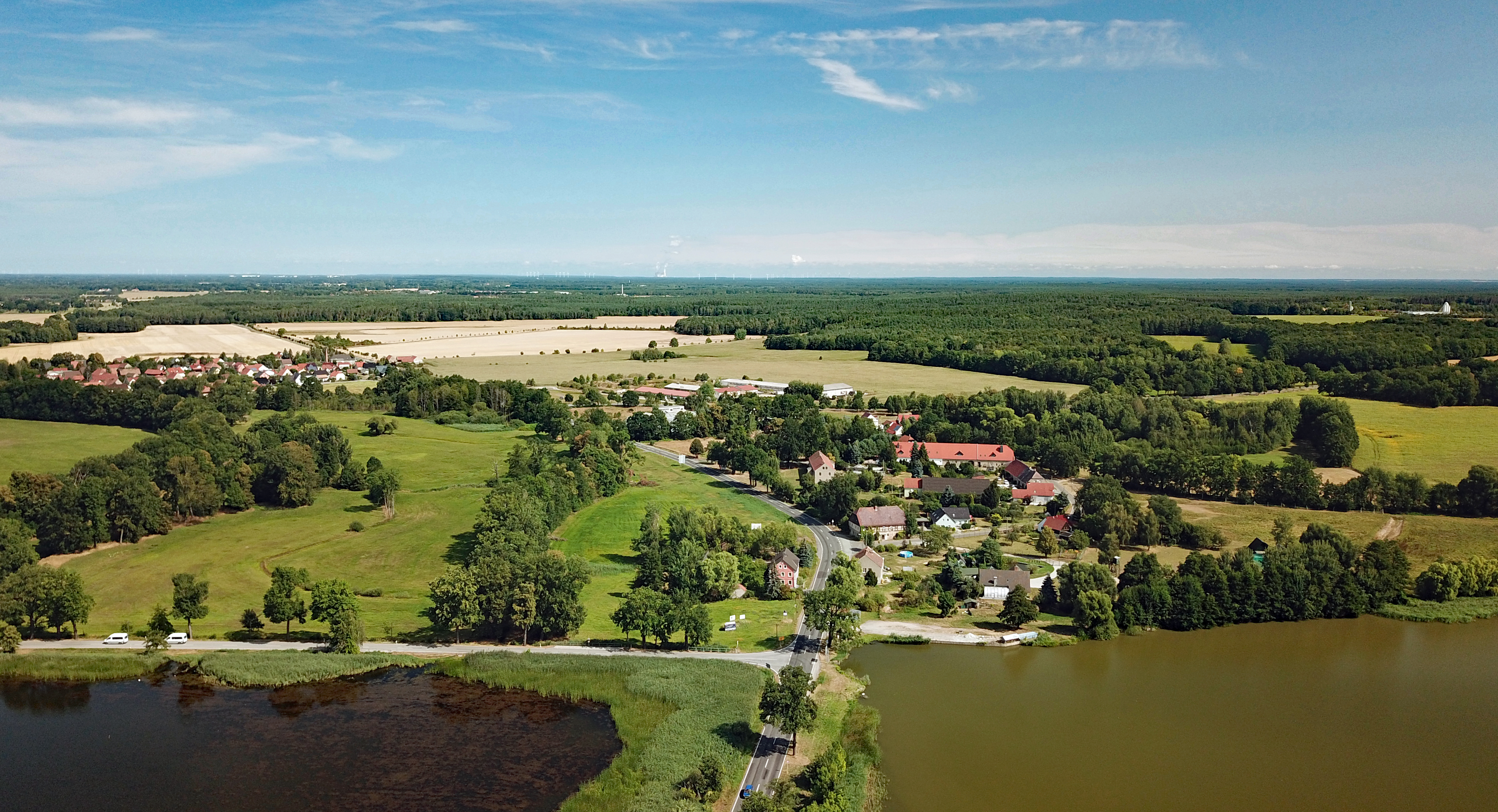 Holscha (Neschwitz, Saxony, Germany) Hornjoserbsce: Powětrowy wobraz Holešowa